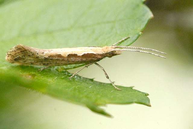 Plutella xylostella from Commanster, Belgian High Ardennes .